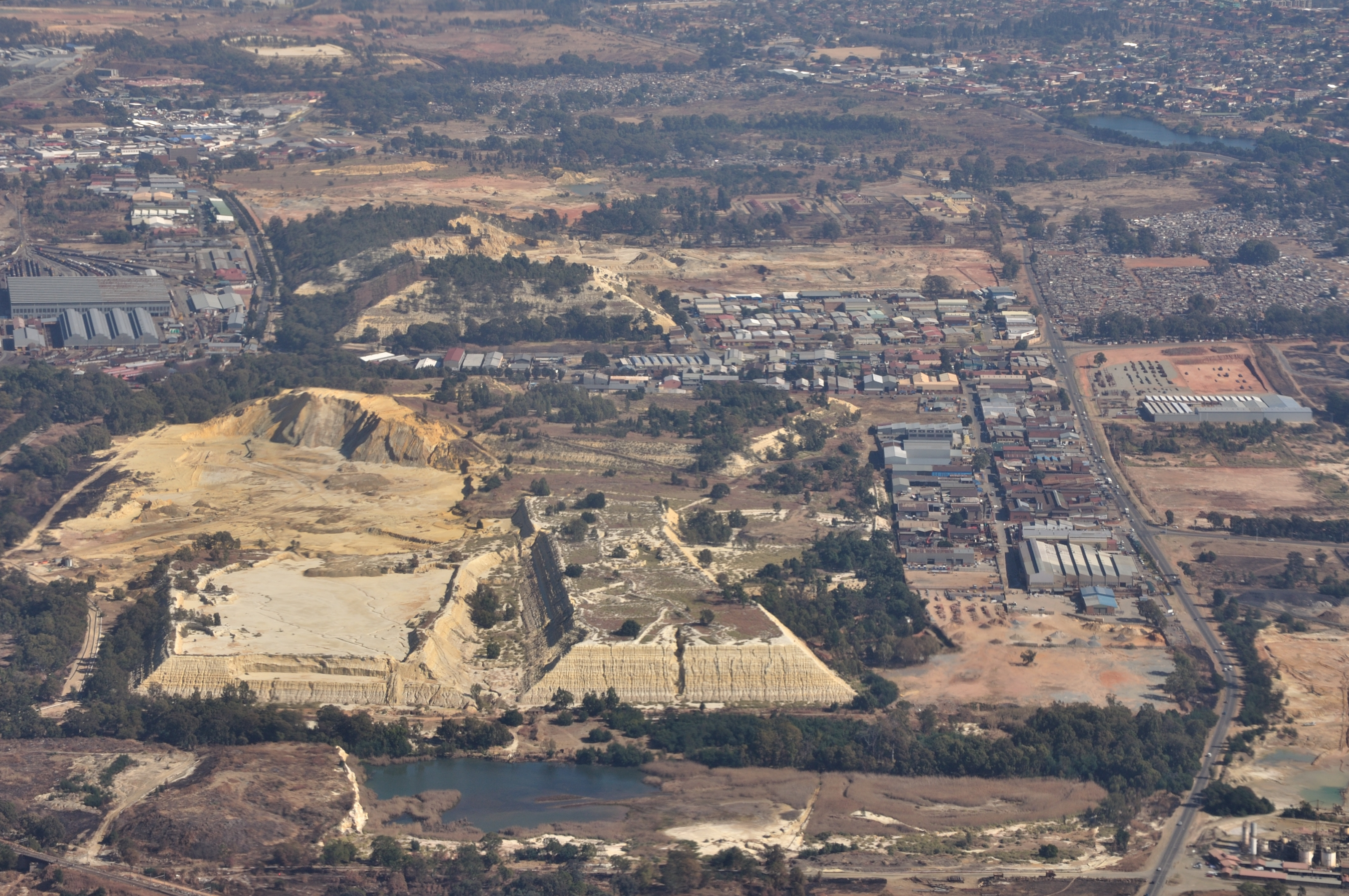 Vicinity of Knights Gold Plant at Main Reef Rd, Driefontein 87-IR, Germiston-Primrose area of Gauteng, South Africa South Africa, picture from a flight from JNB to CPT. For exact location see geocode.